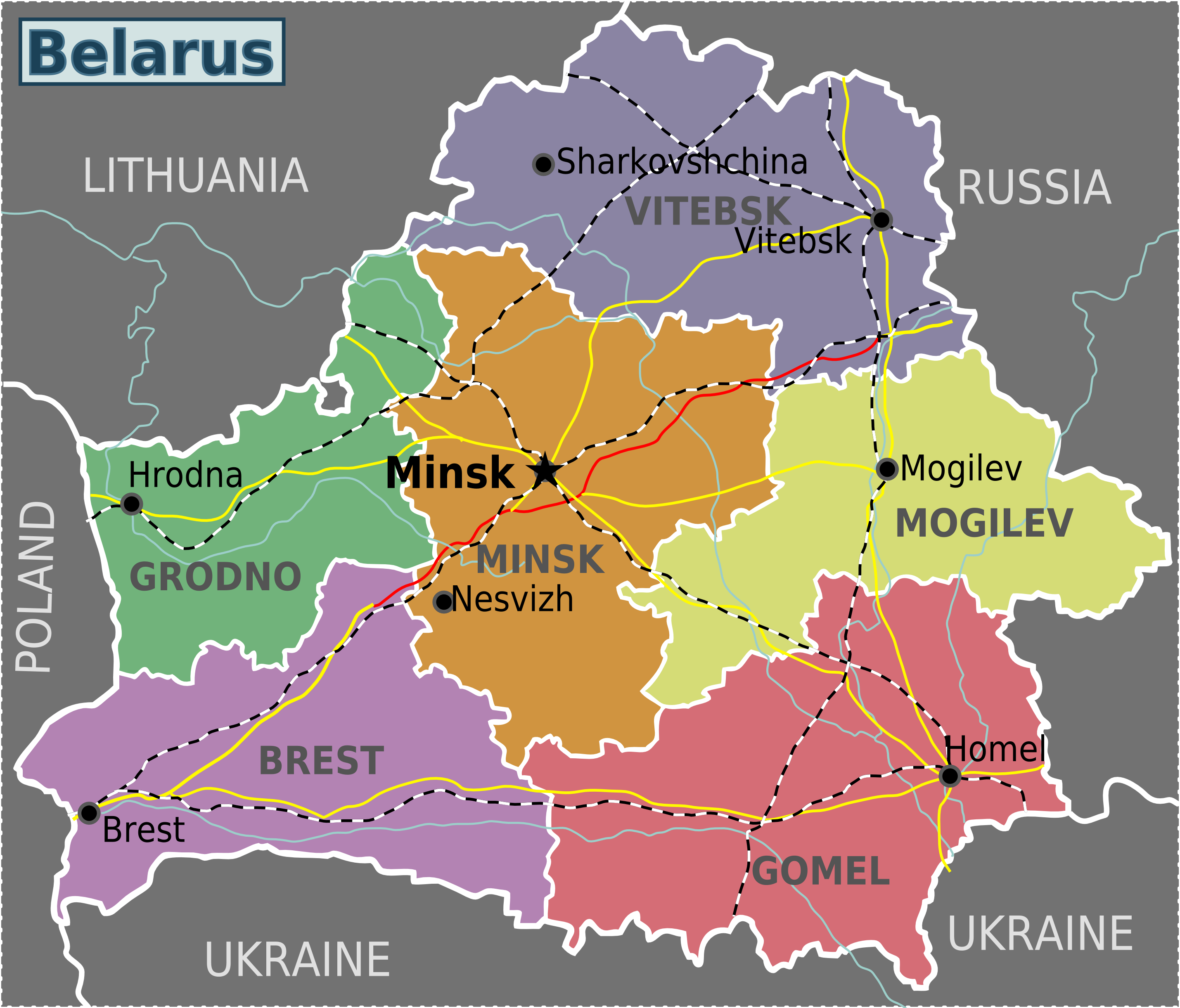 Regional map of Belarus (Wikivoyage regional scheme), English version